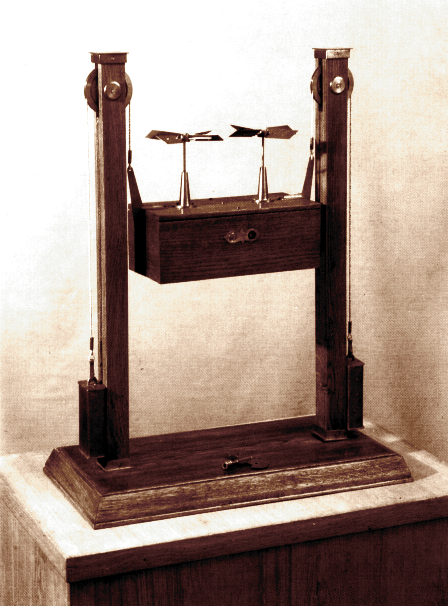 M. Lomonocov's Aerodromic Machine. Model